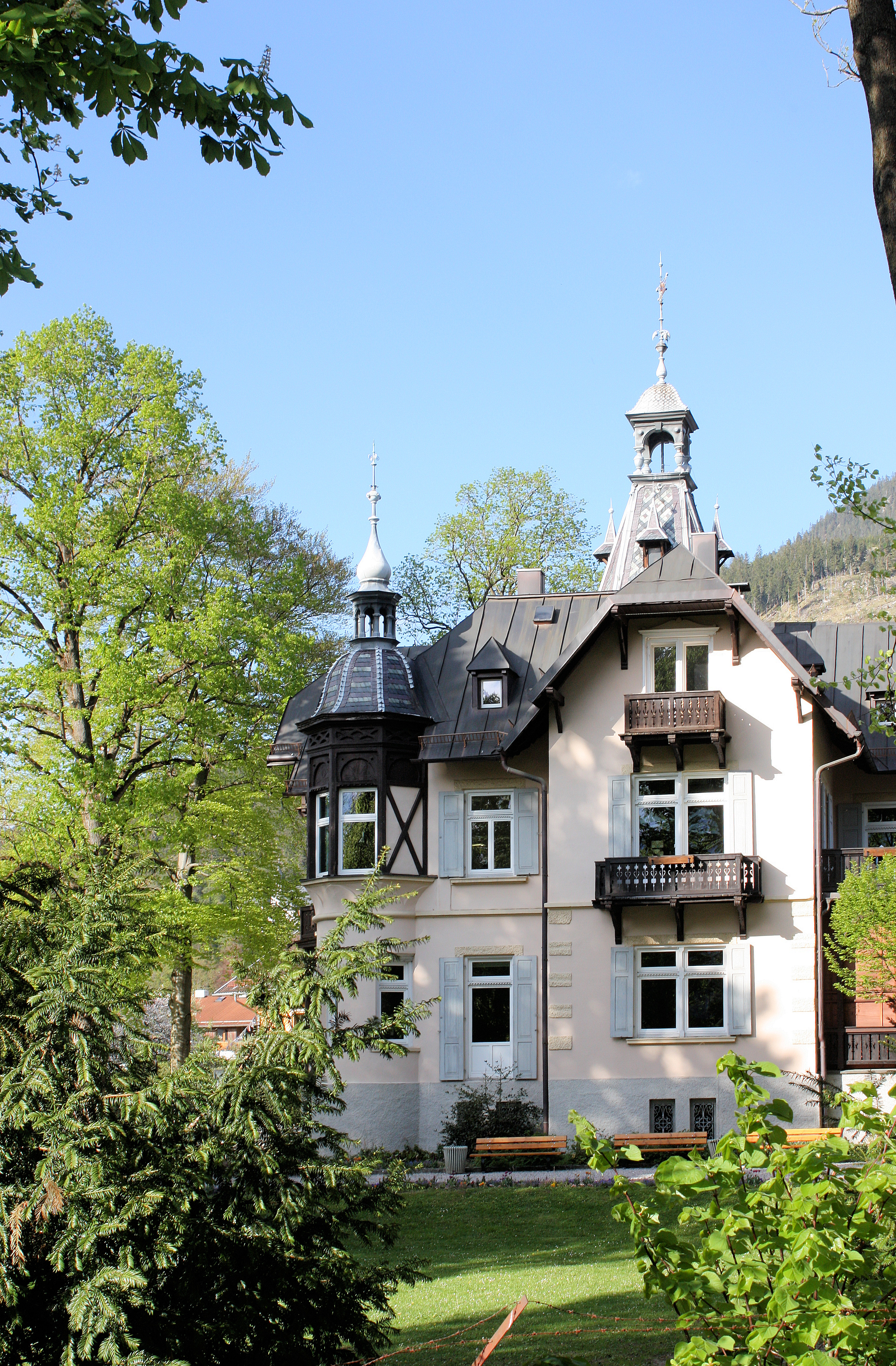 Garmisch-Partenkirchen, the villa Christina, Richard Strauß institute